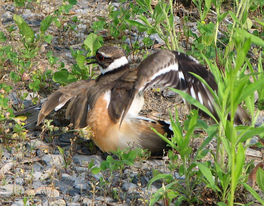 This is what Killdeer do when you get near their nest that they build in stones. They act as if their wing is broken so their prey comes after them and leaves the babies alone.